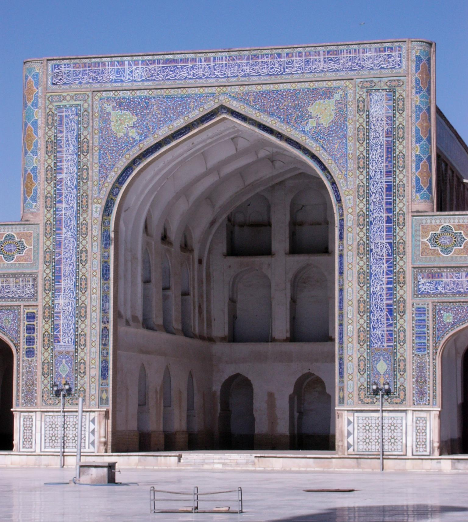 Friday Mosque in Herat, Afghanistan